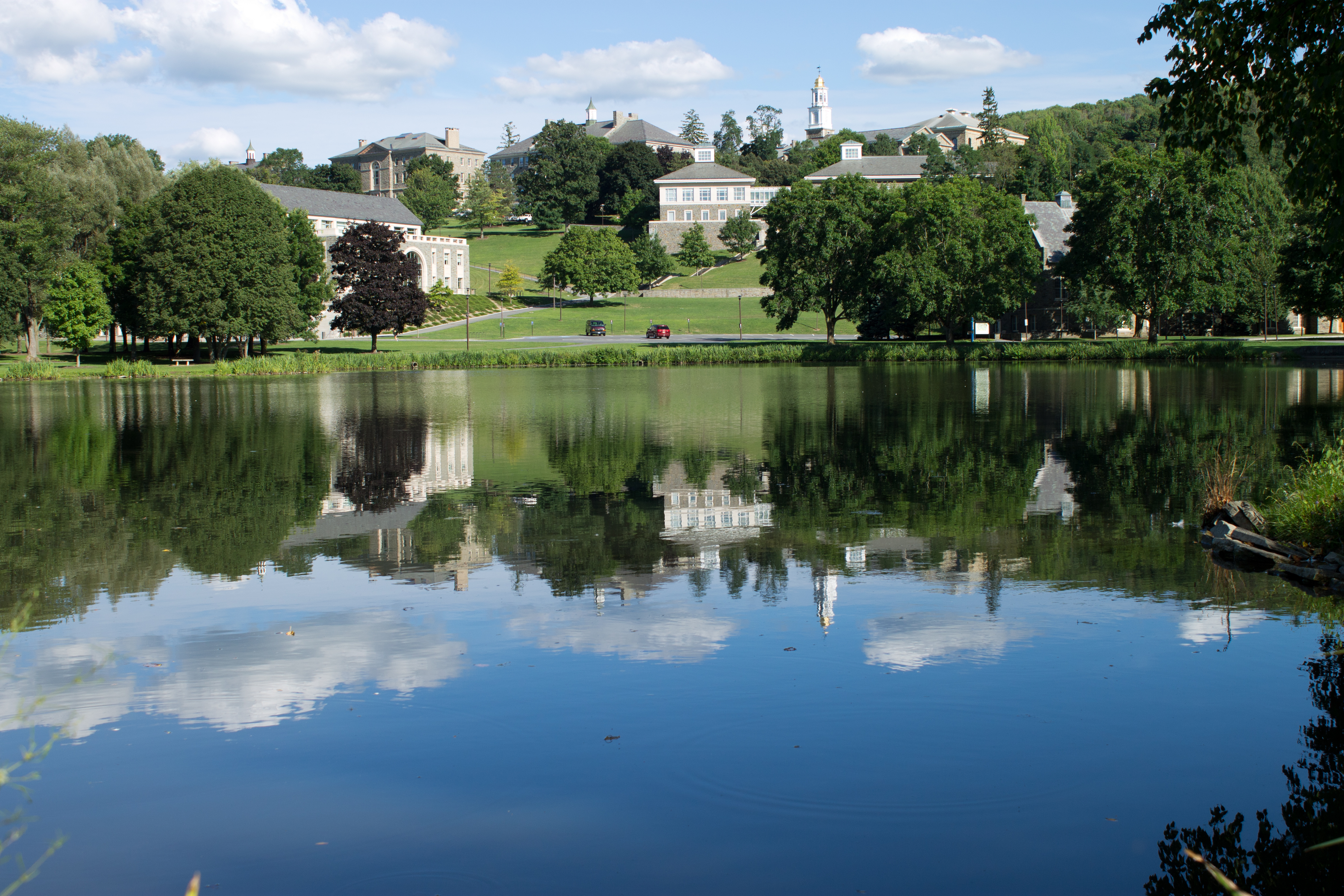 A view of Colgate University, taken from Broad Street, with Taylor Lake in the foreground.